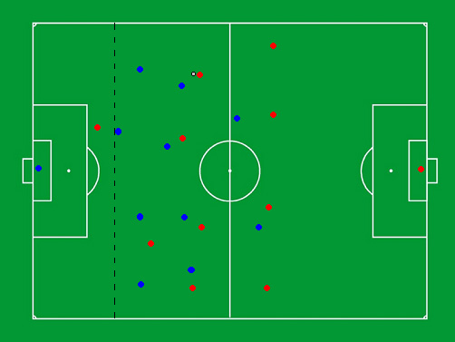 Graphic explaining the offside situation in soccer sport.